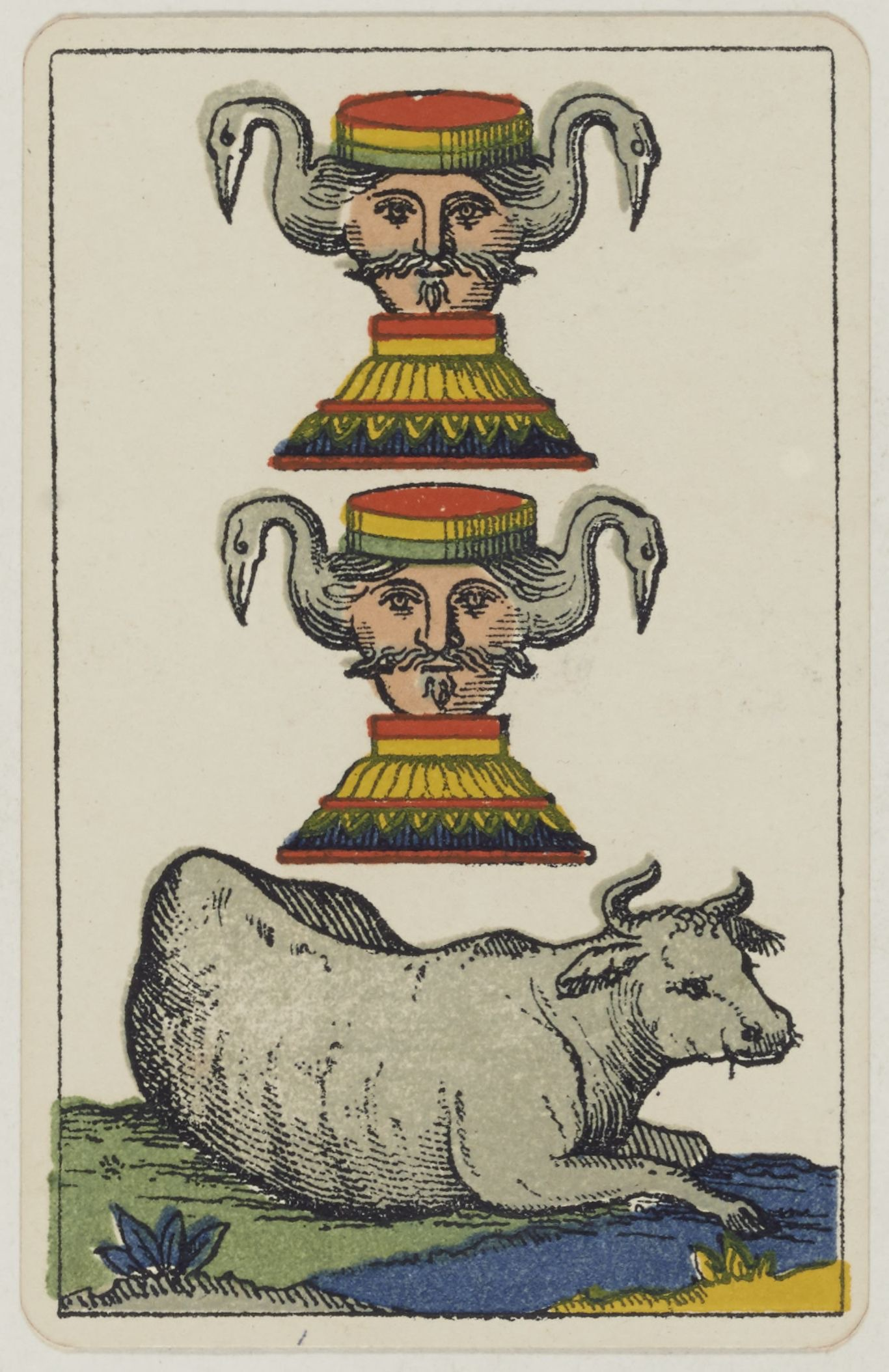 Aluette deck, B. P. Grimaud editor, France, 1858-1890: Two of Cups